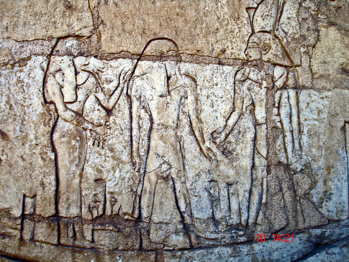 Usermaatre-Setepenre King Shoshenq III, standing on the boat "msktt" (the boat of the night), with the god Atum. From Tanis, Tomb NRT V. (Tomb of Shoshenq III), Burial chamber, South Wall. Bibliography. Lull, Joseph. "The royal tombs of the Egyptian Third Intermediate Period (Dynasties XXI-XXV)", 2002, p. 146-150.